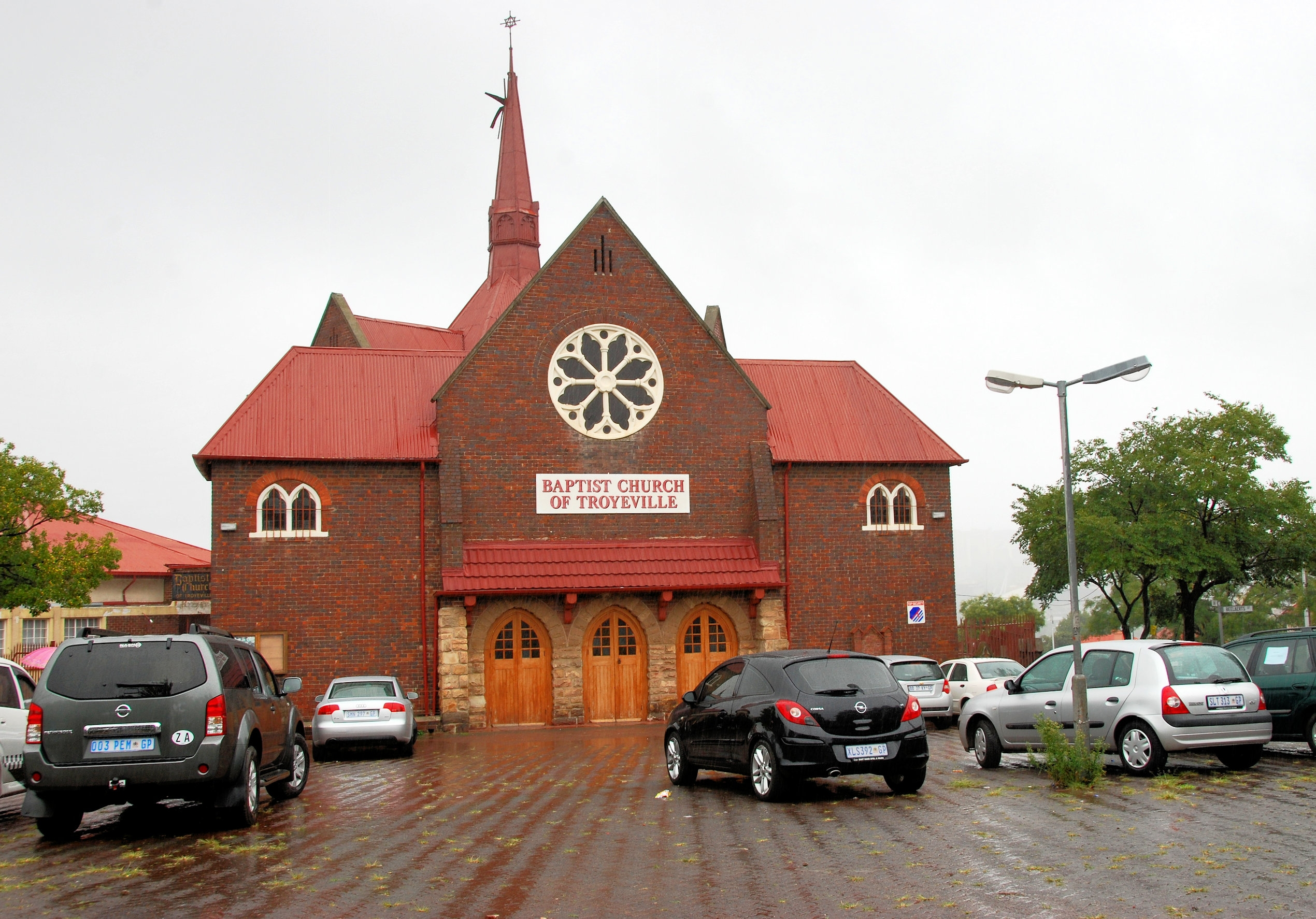 Baptist Church in Troyeville, Johannesburg